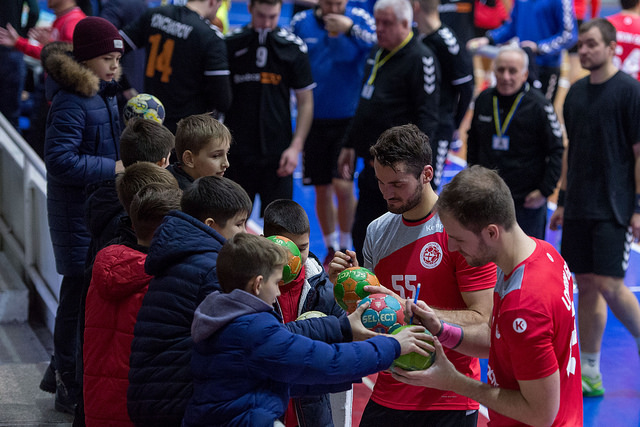 London GD Handball Club